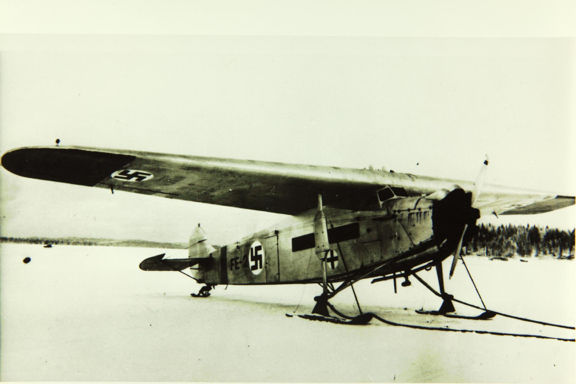 Finnish air force Fokker F.VIIa FE-2 during World War Two. Catalog #: 01_00080276 Title: Fokker, F.VII Corporation Name: Fokker Additional Information: Single engine Designation: F.VII Tags: Fokker, F.VII Repository: San Diego Air and Space Museum Archive